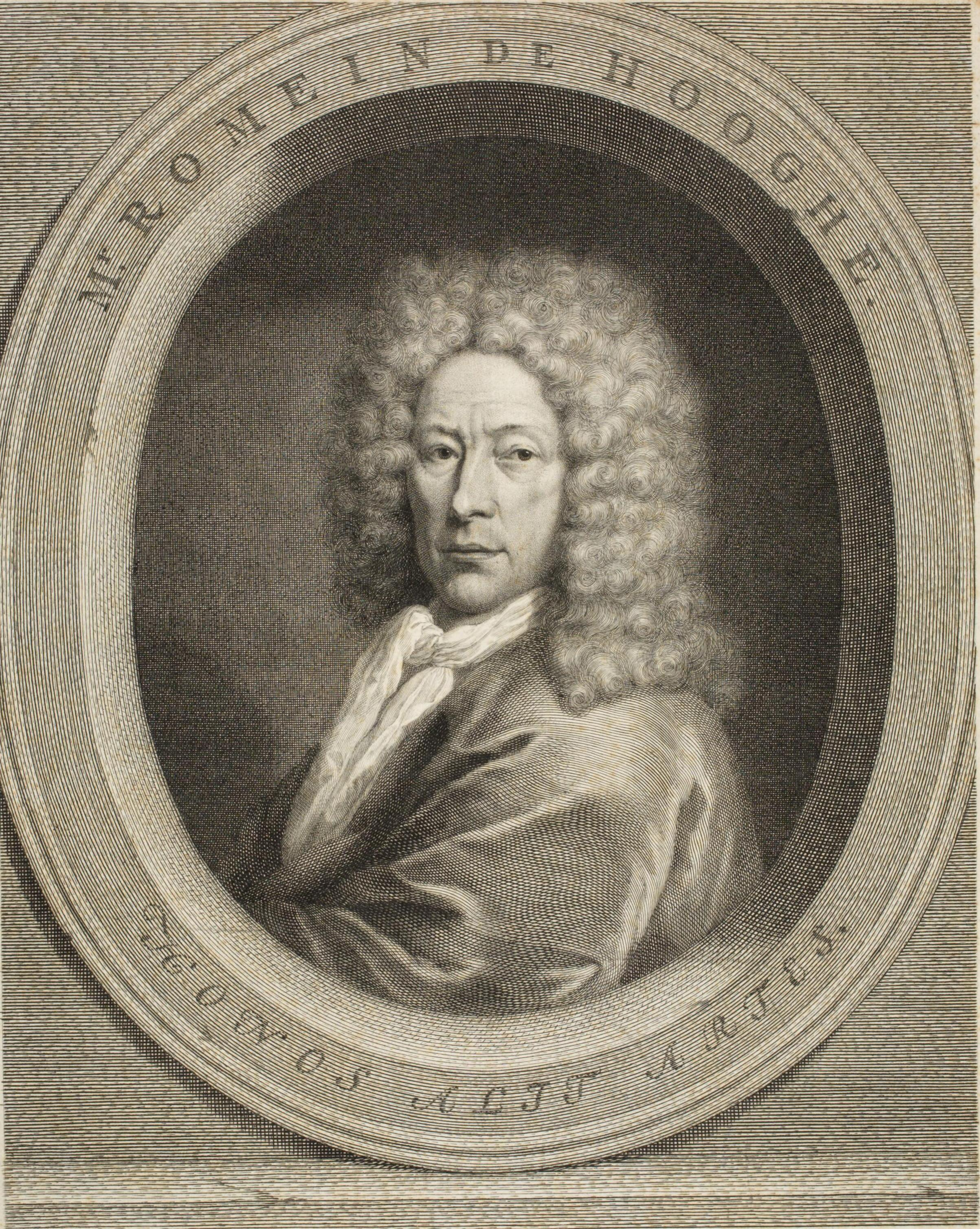 Romeyn de Hooghe (1645-1708), Dutch painter, engraver, sculptor, and medallist from Amsterdam. Engraving by Jacob Houbraken from a portrait by Henricus Bos. Inscribed along the oval frame "Mr. ROMEIN DE HOOGHE. HONOS ALIT ARTES."